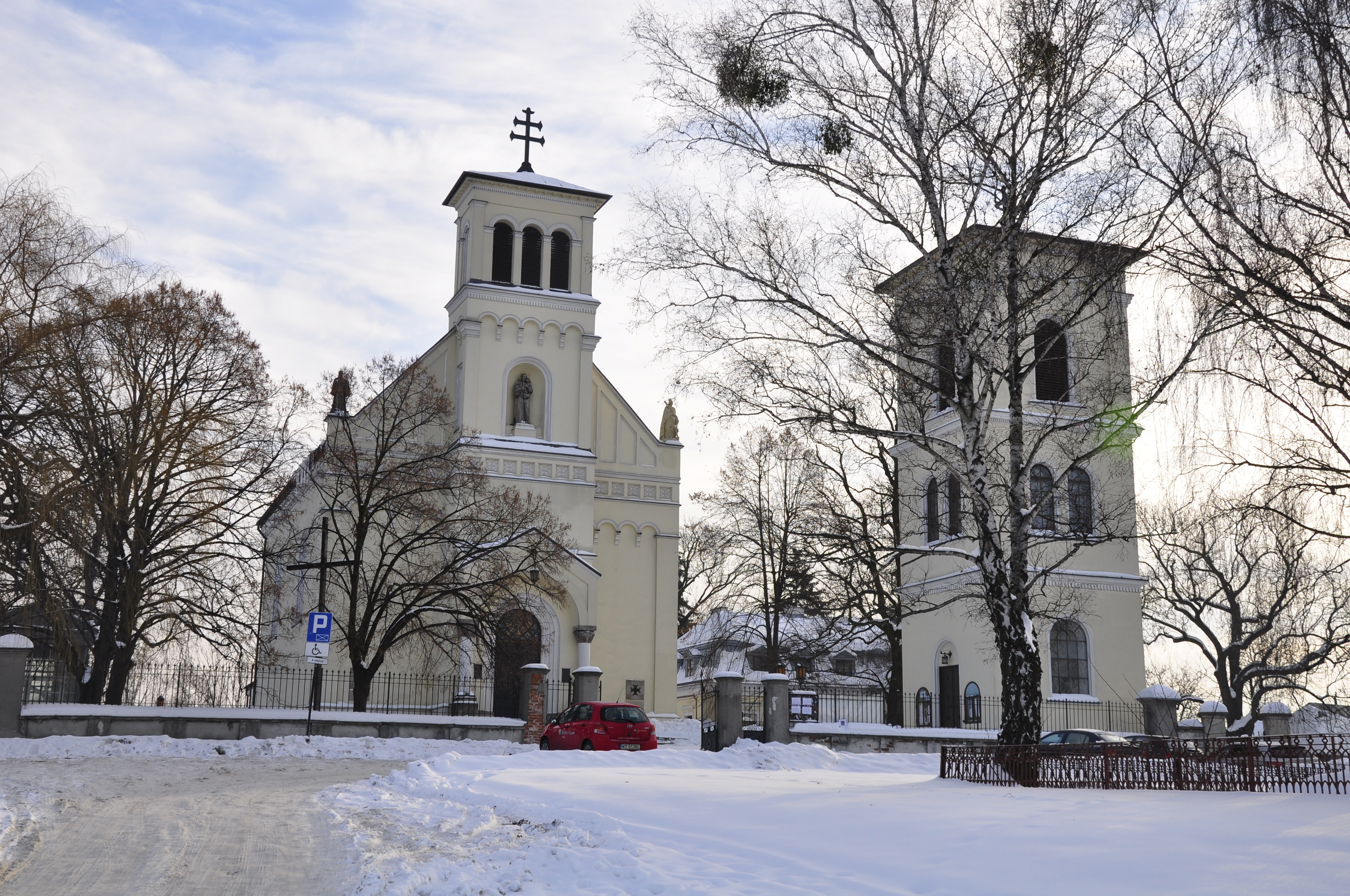 Warsaw church Swieta Katarzyna, Ursynow